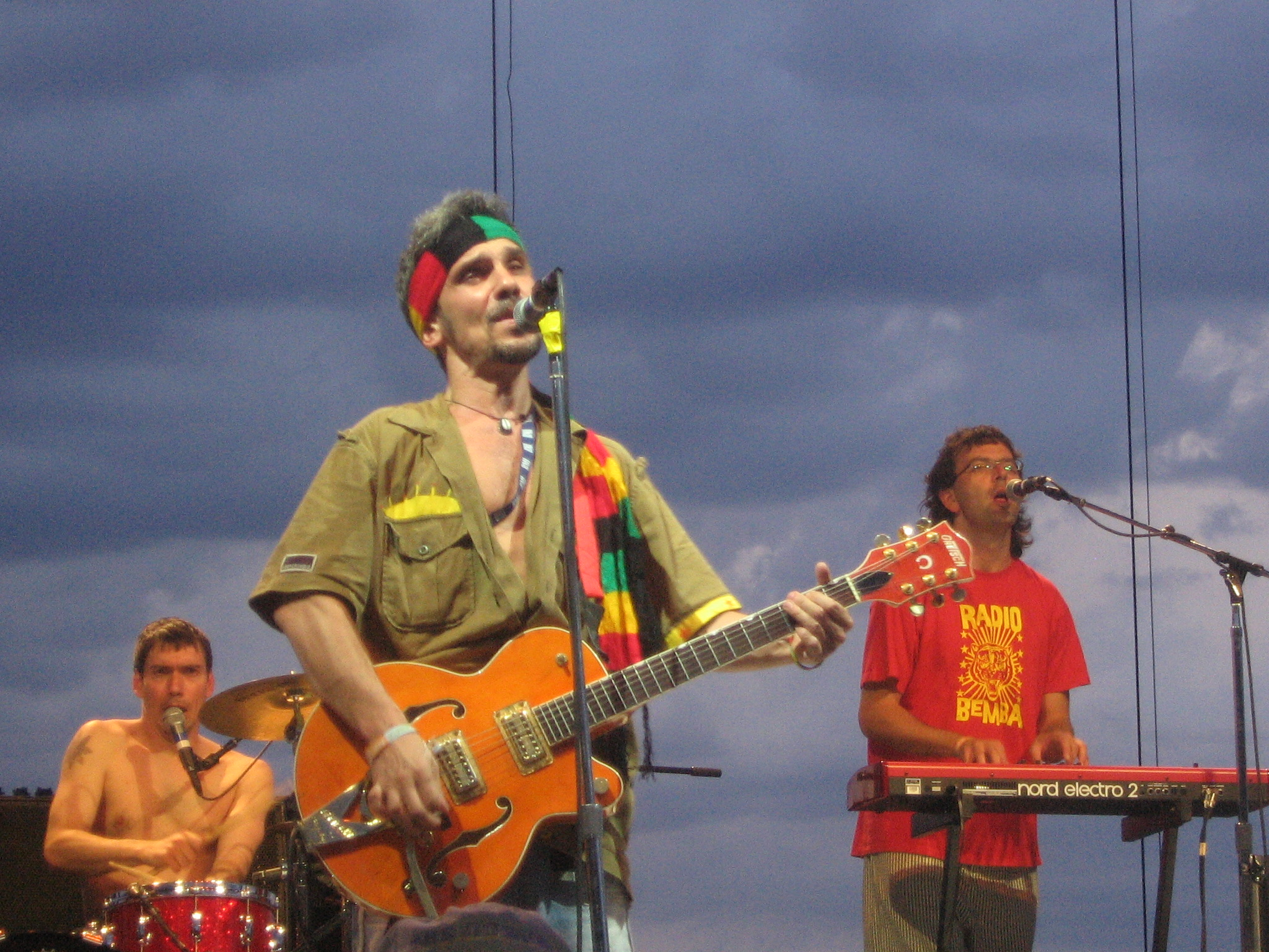 Manu Chao performing at Sasquatch Music Festival in George, Washington May 2007.